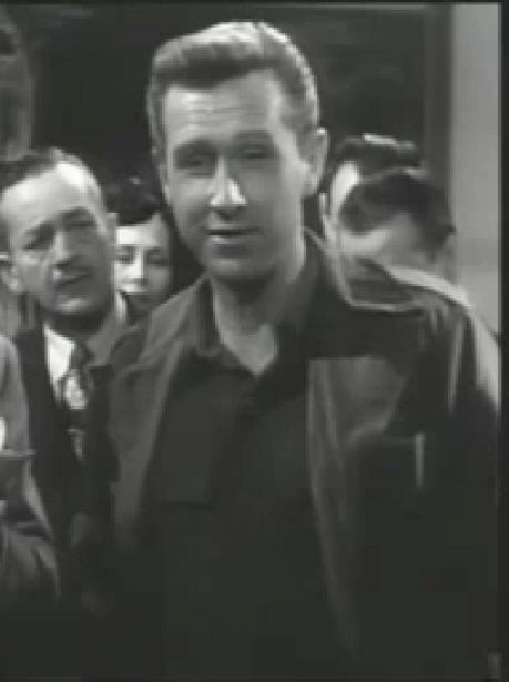 Lloyd Bridges in Rocketship X-M (cropped screenshot)